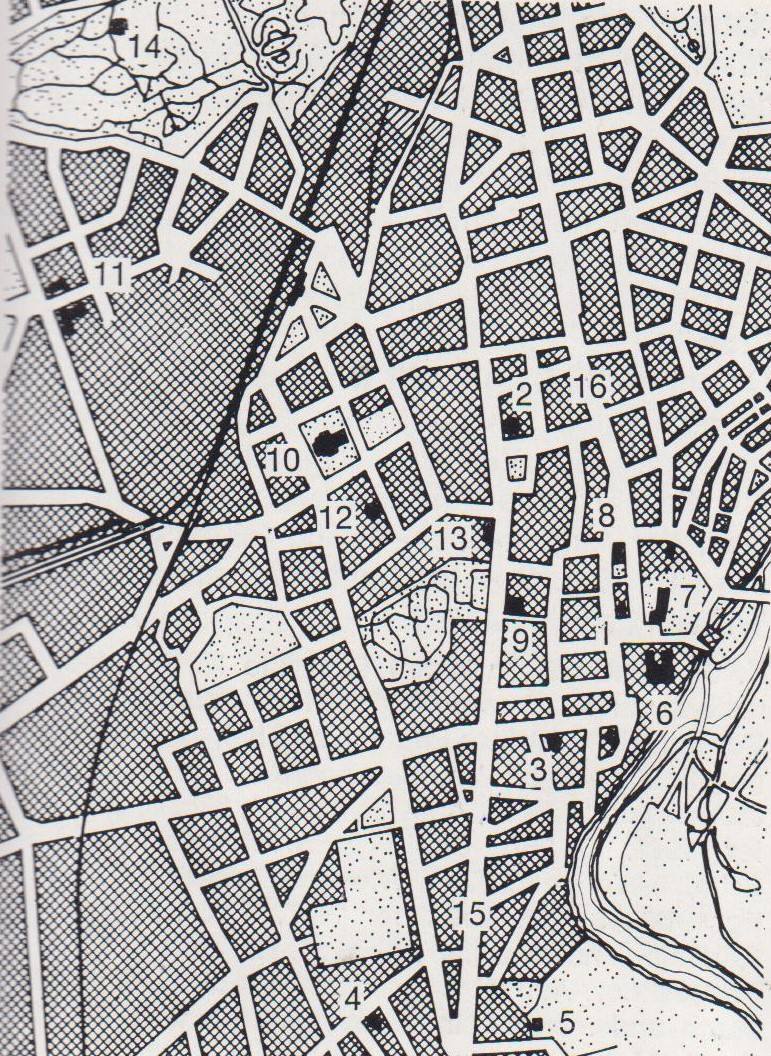 Dessau in Saxony Anhalt